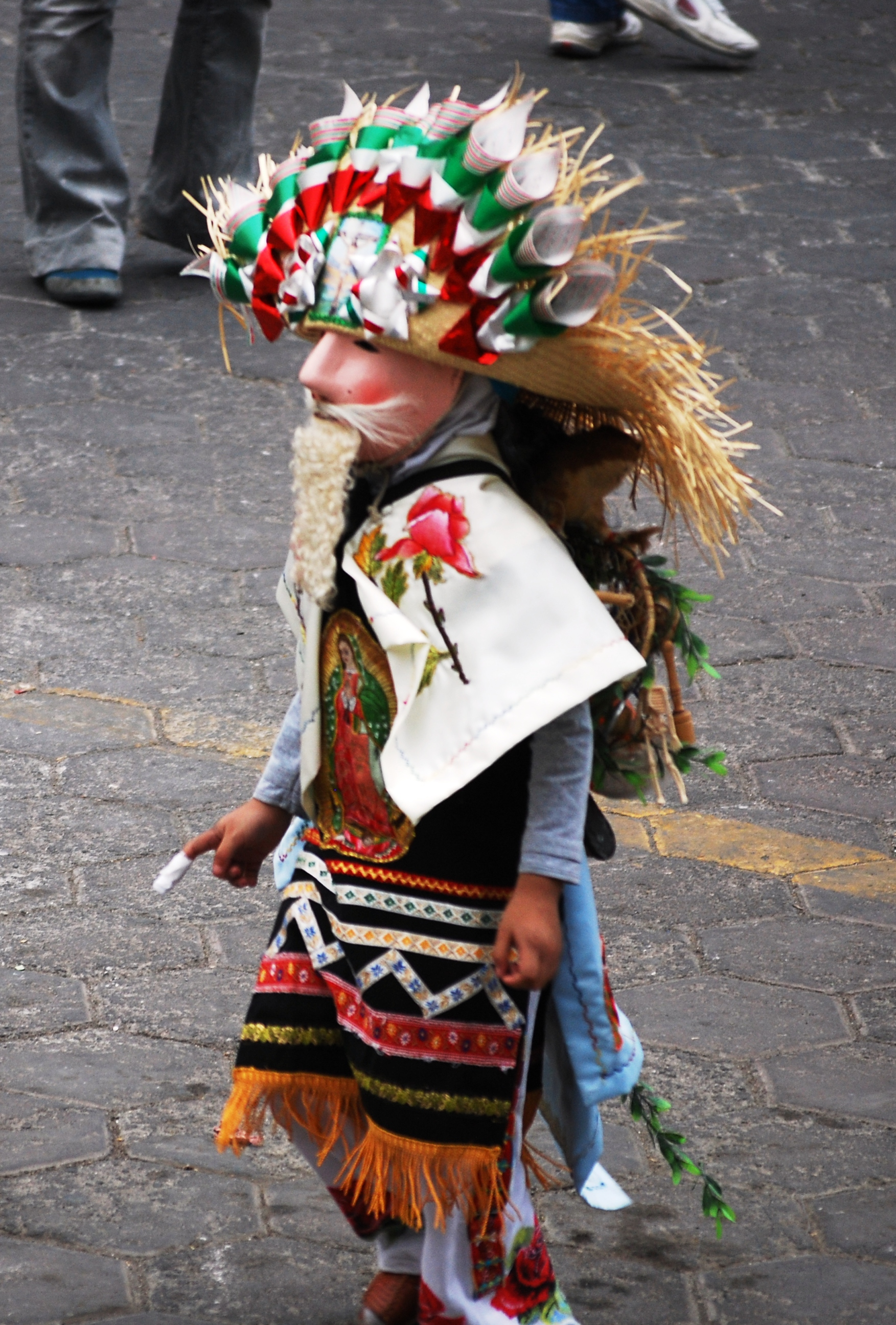 Child in serrano costume at the Carnival of Huejotzingo, Puebla, Mexico